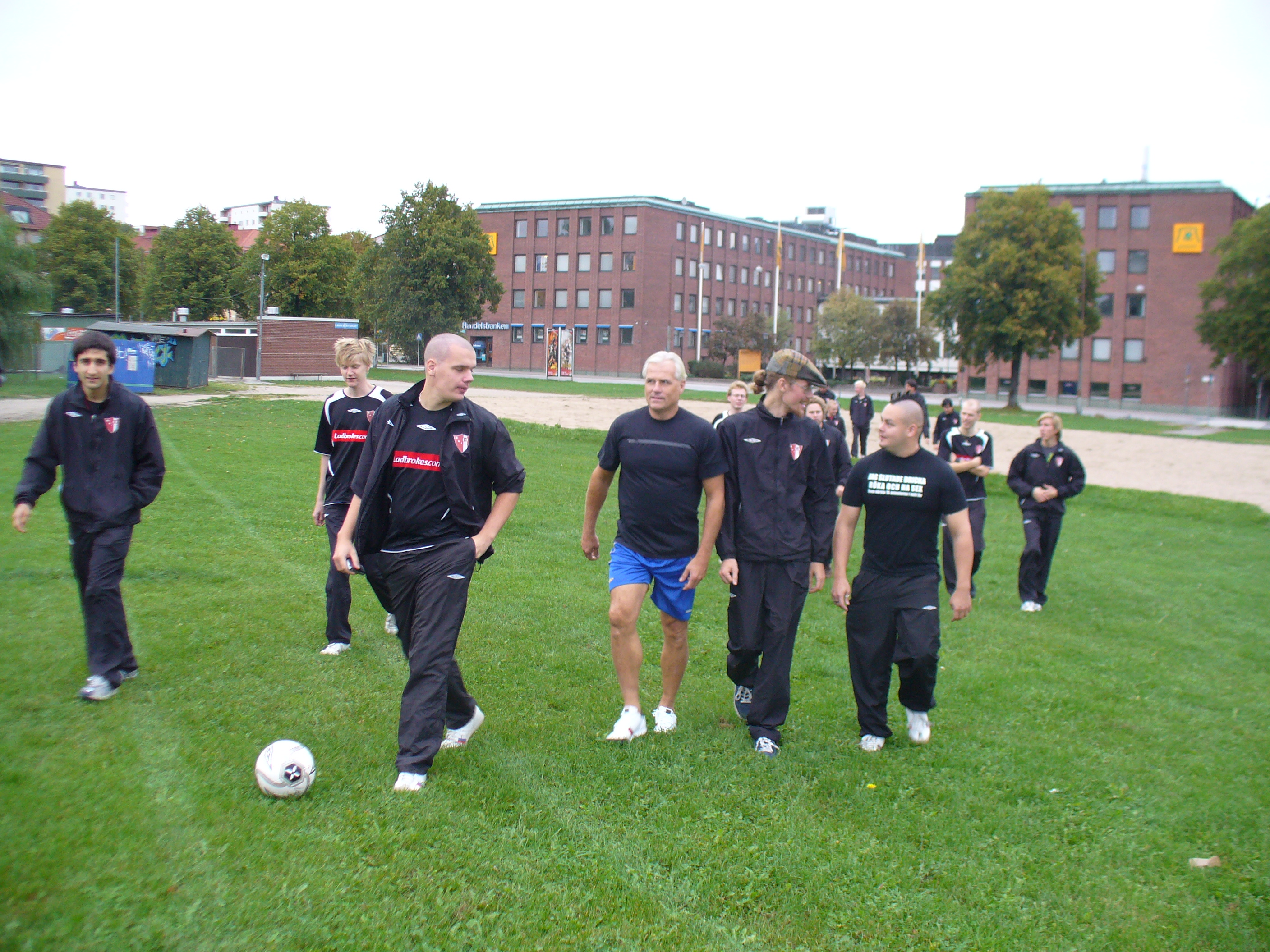 Football team FCZ going to training with Glenn Hysén.